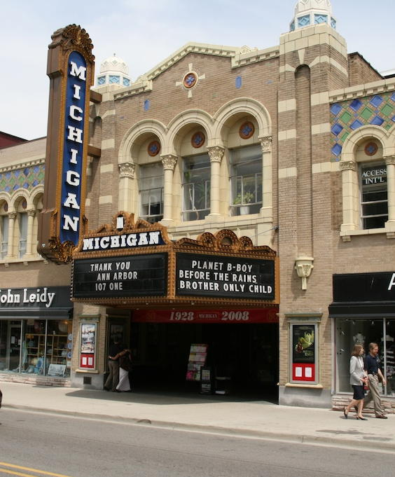 The old cinema or theatre in Ann Arbor, Michigan. This building is included in the National Registery list of Historic Places in Washtenaw County, Michigan. The cinema was built in 1928.